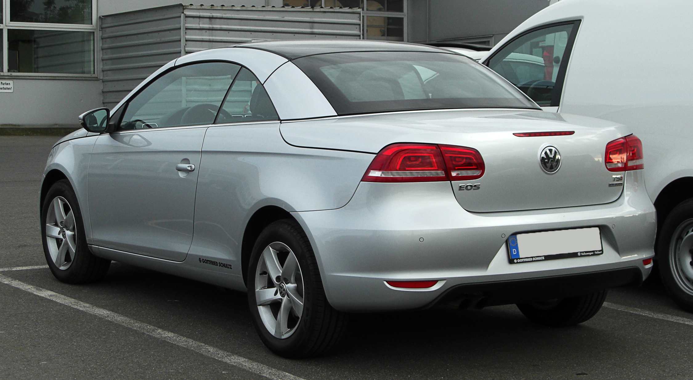 VW Eos 1.4 TSI BlueMotion Technology (Facelift)